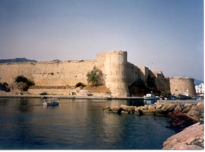 The Kyrenia Castle near Girne in Cyprus.